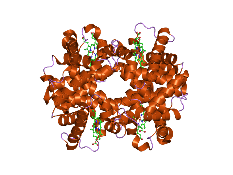 Cartoon representation of the molecular structure of protein registered with 2qss code.